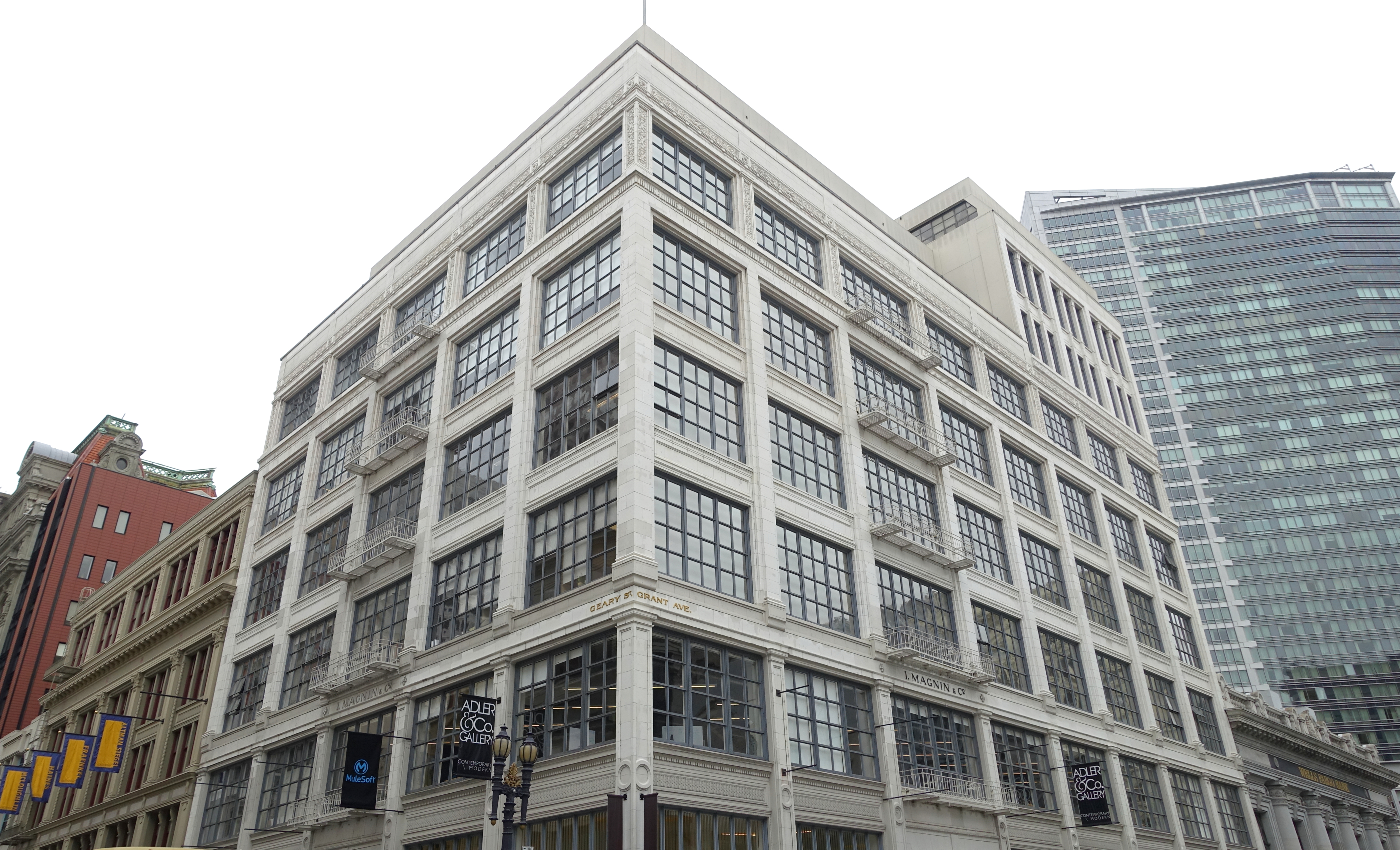 I. Magnin building, 50 Grant Avenue - San Francisco, California, USA.